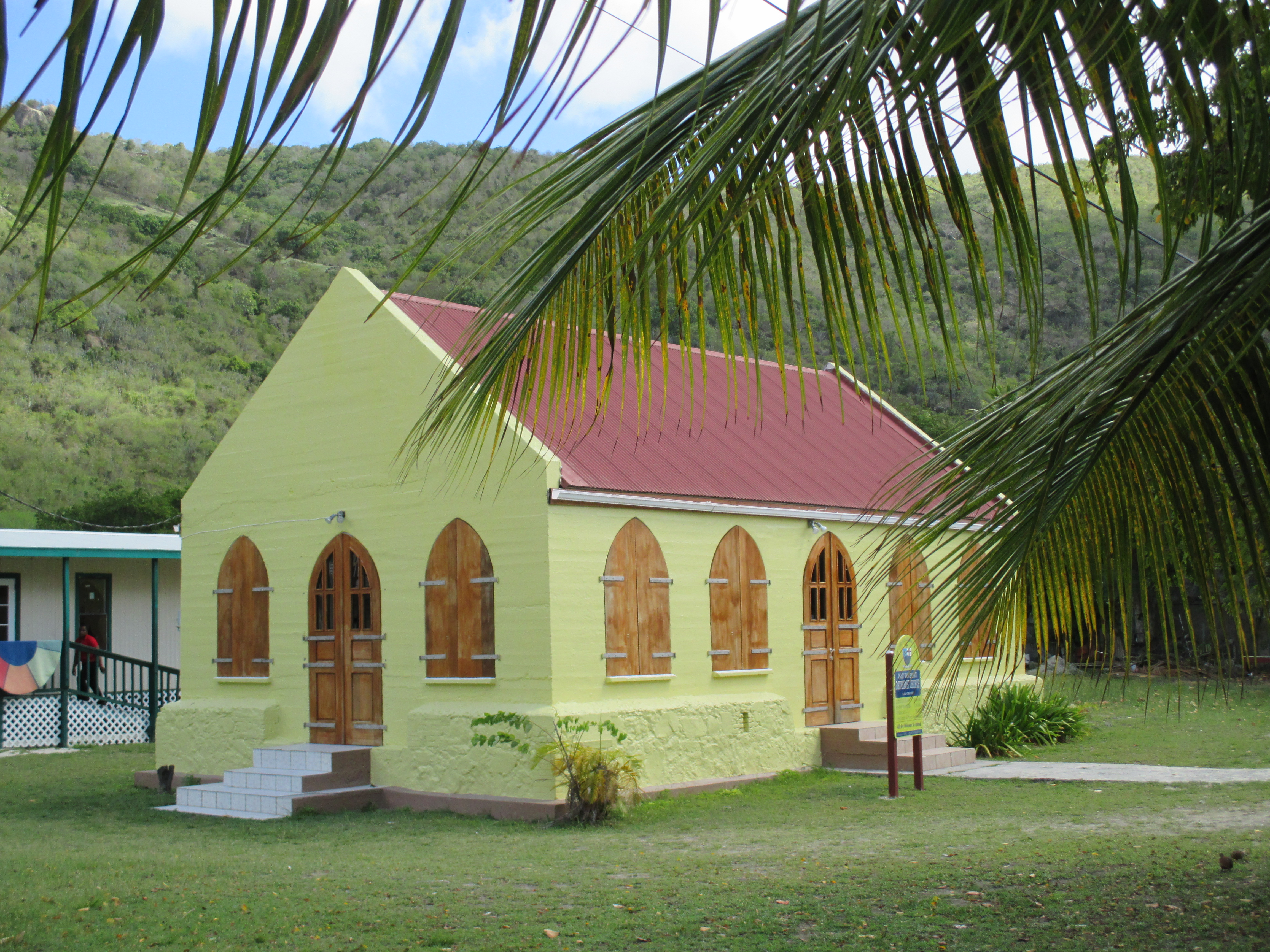 Methodist Church